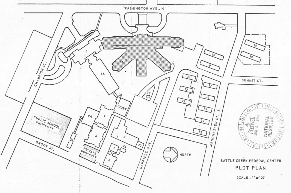 Battle Creek Federal Center Plot Plan, the National Archives